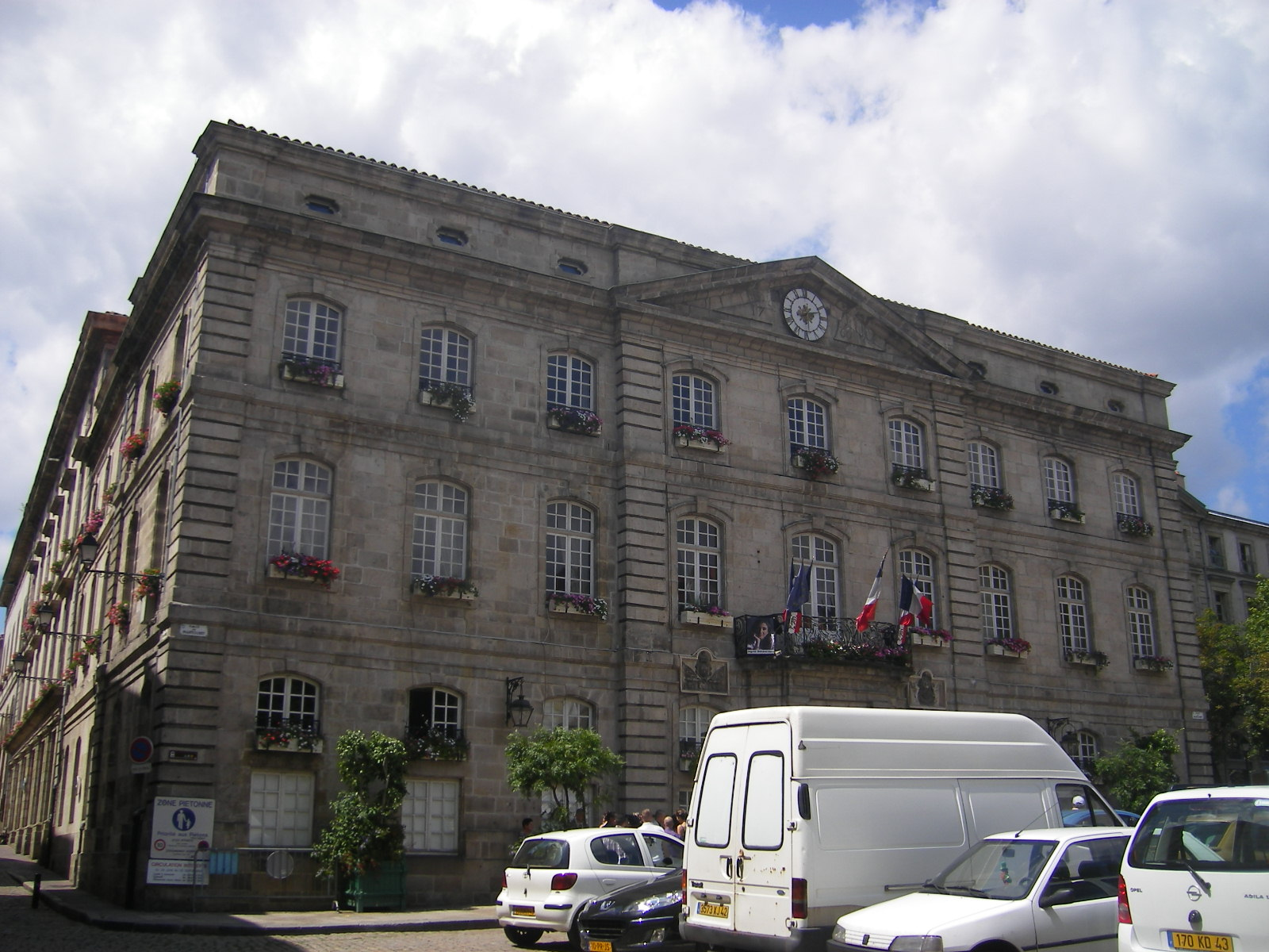 Le Puy - Town Hall